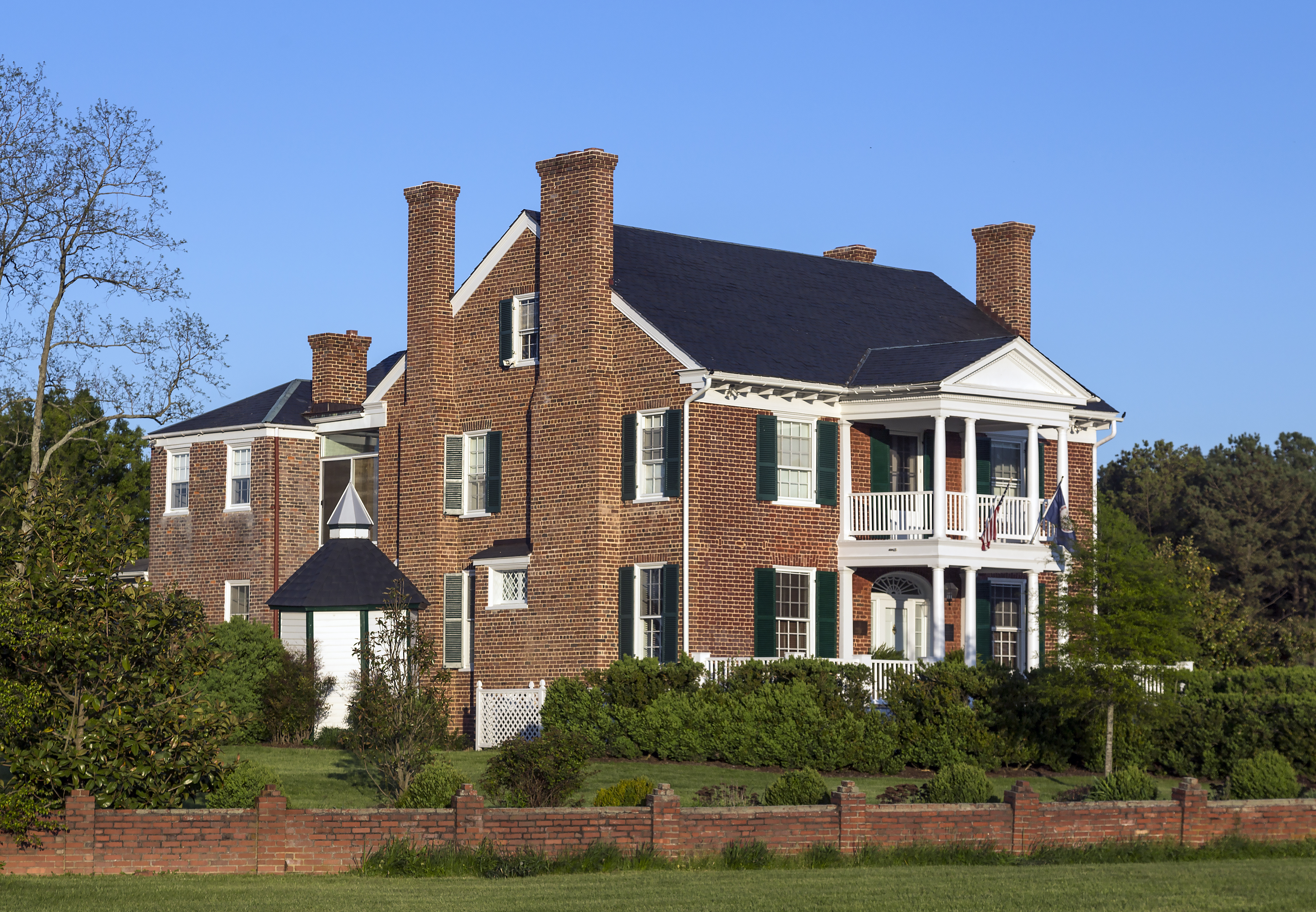 Cuckoo, the chief house of the eponymous Cuckoo, Virginia, USA